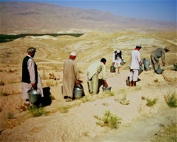 Samangan Province pistacchio farmers